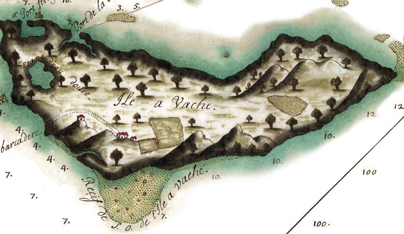 Map from around 1700 of Île-a-Vache island, Haiti